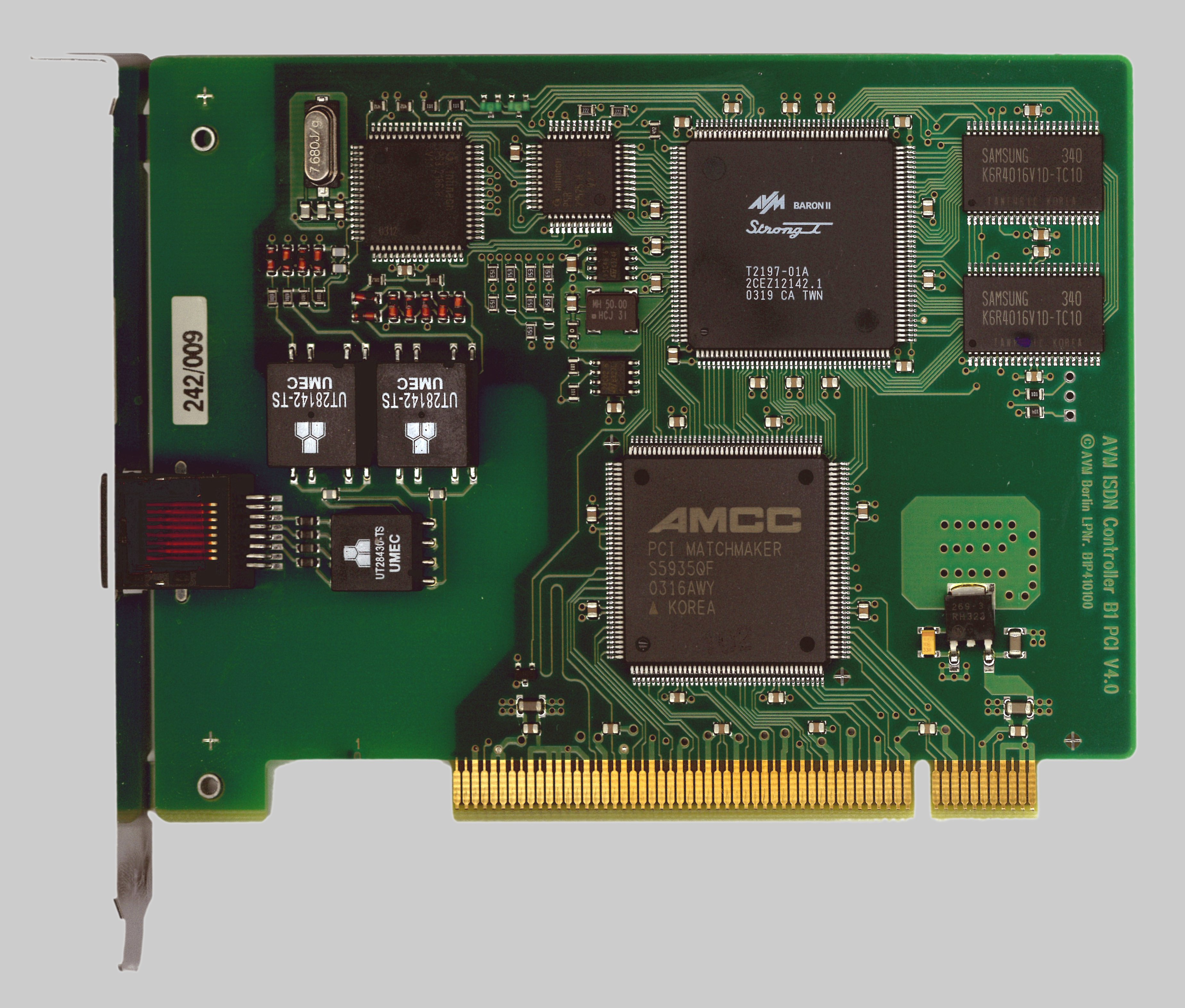 Active ISDN-Controller PCI card with 50 MHz Transputer